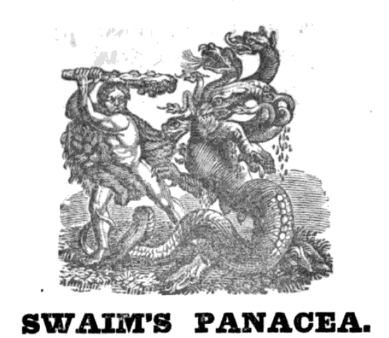 1822 advertisement for Swaim's Panacea, appearing in The merchant's and shipmaster's assistant (New York 1822)